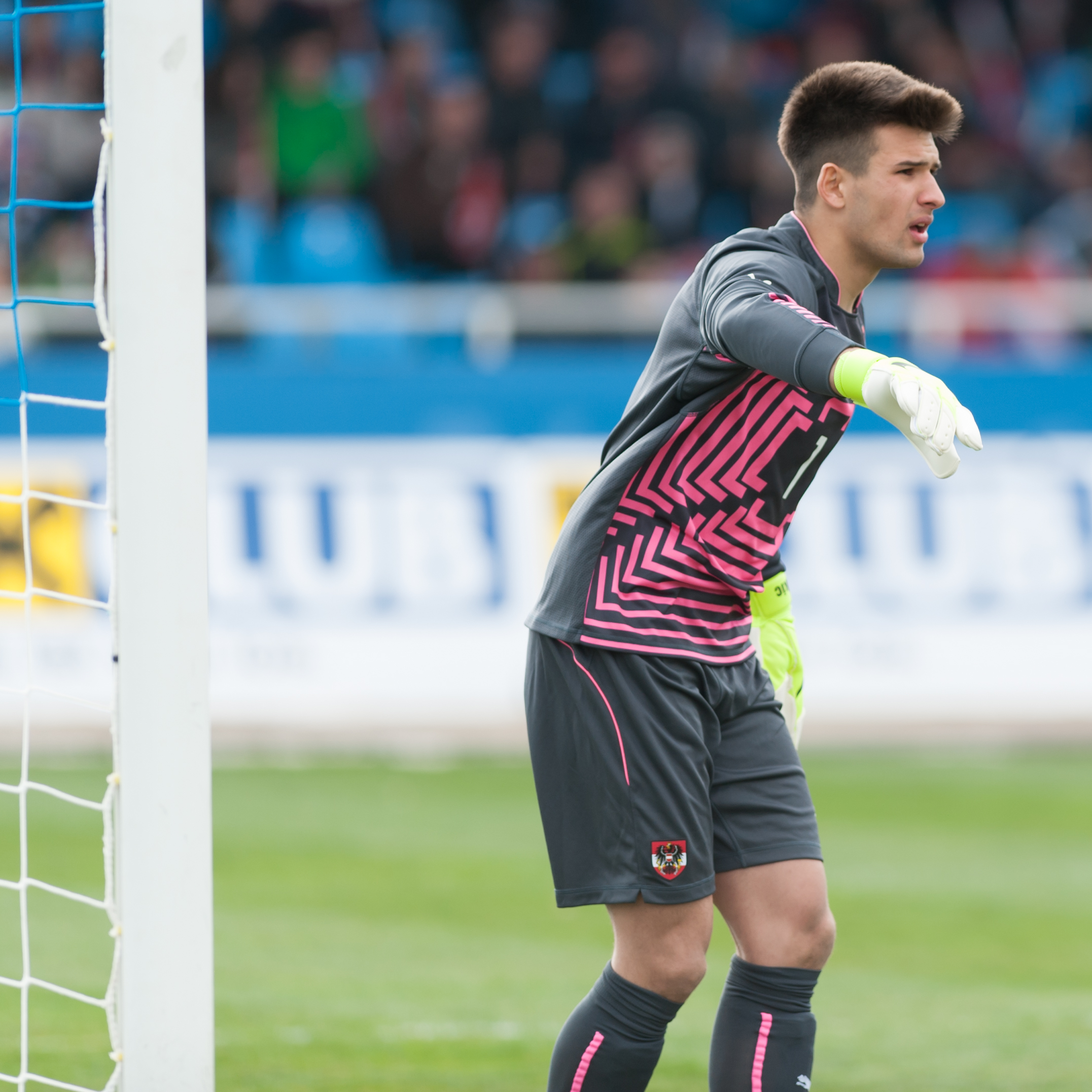 European Under-19 Championships 2015 Elite Round, Austria vs. Croatia, 28/03/2015 Wiener Neustadt, Lower Austria